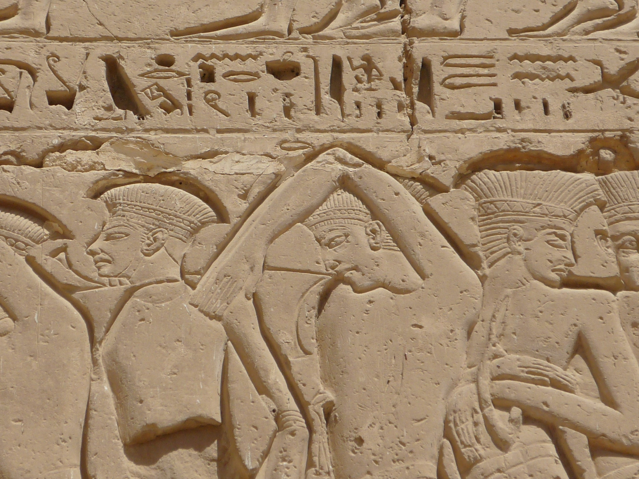 Wall relief of philistines captives, mortuary temple of Ramses III (-1186 /-1154), Medinet Habu, Theban Necropolis, Egypt